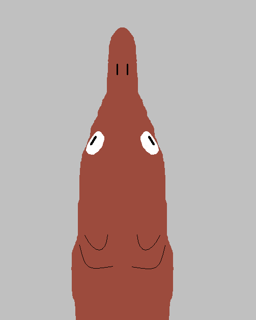 Lazurussuchus inexpectatus, a choristodere from the Oligocene.